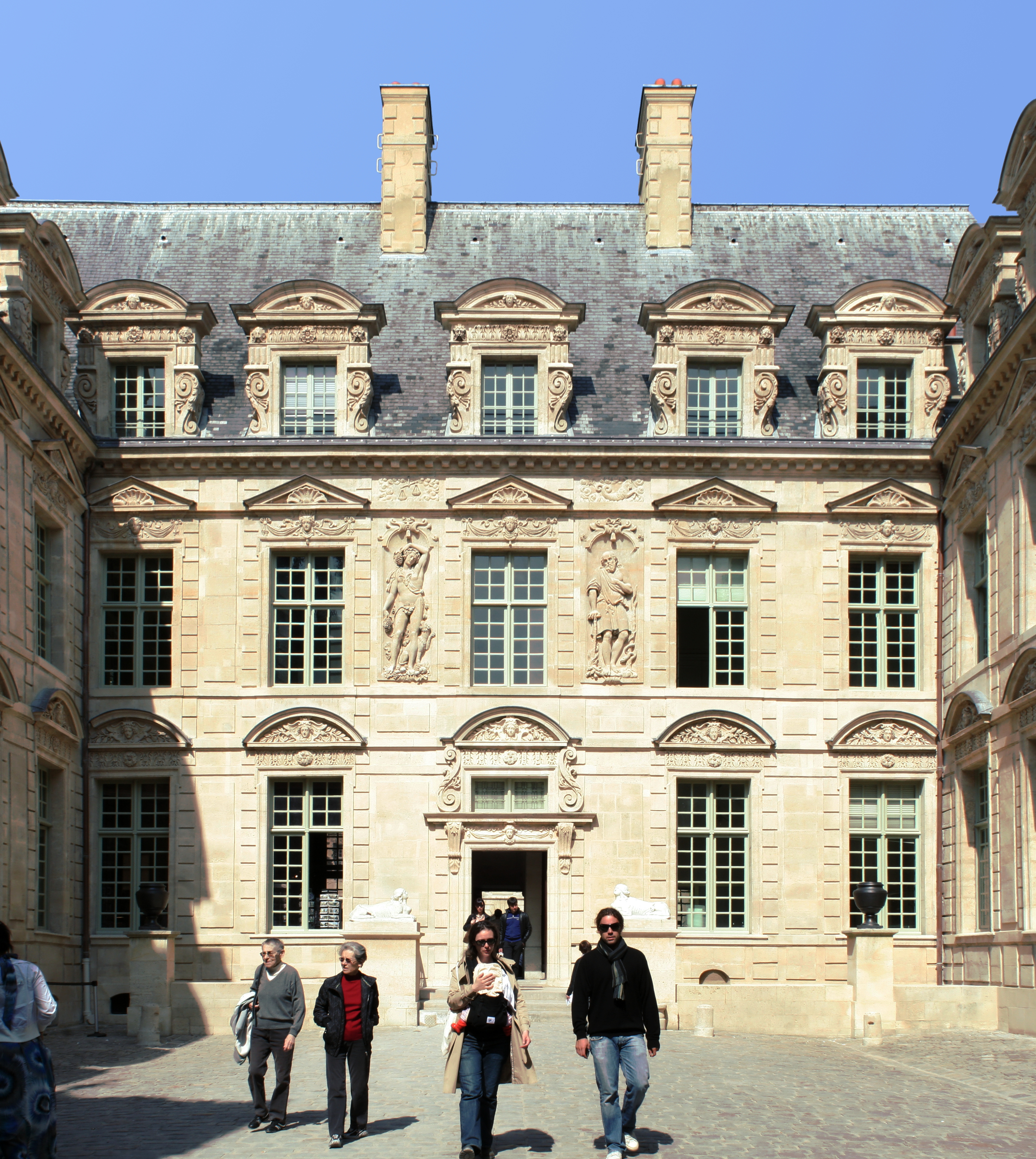 Main facade of the Hôtel de Sully, Paris.